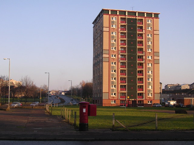 Postbox and Tower Block, Motherwell. Near Arbles Station